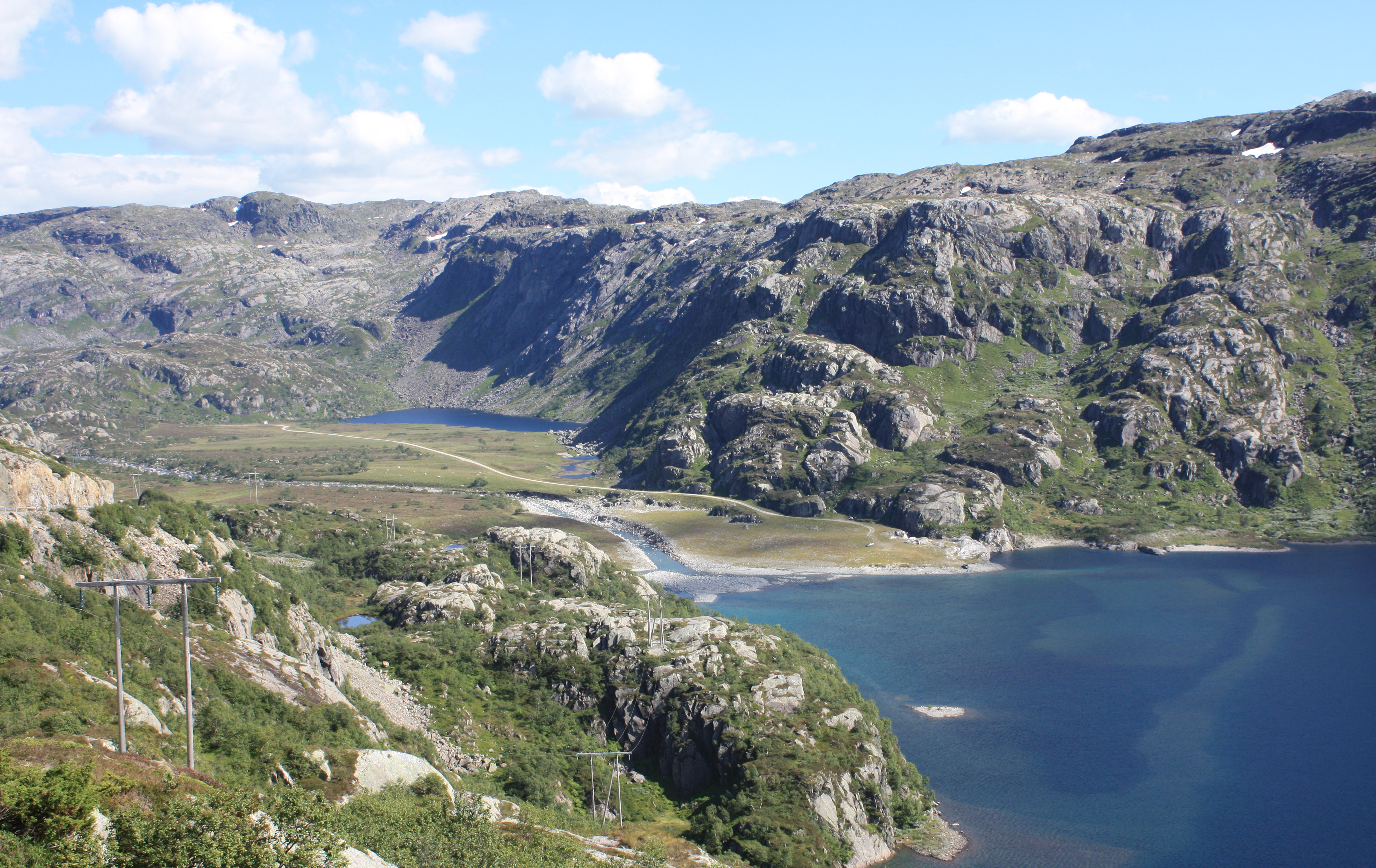 Moavatnet